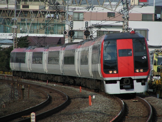 JR East 253 series EMU on a Narita Express service between Totsuka and Ofuna Stations